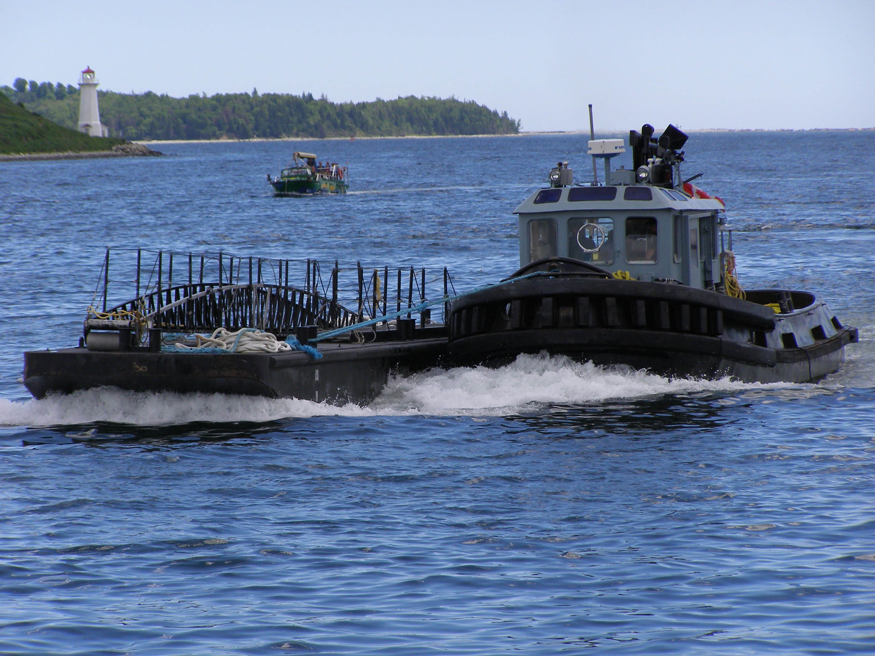 tugboat (Halifax NS, July 3 2007)